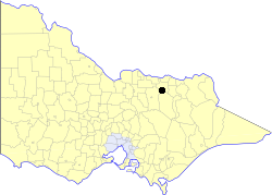 Location of the former City of Wangaratta within Victoria.